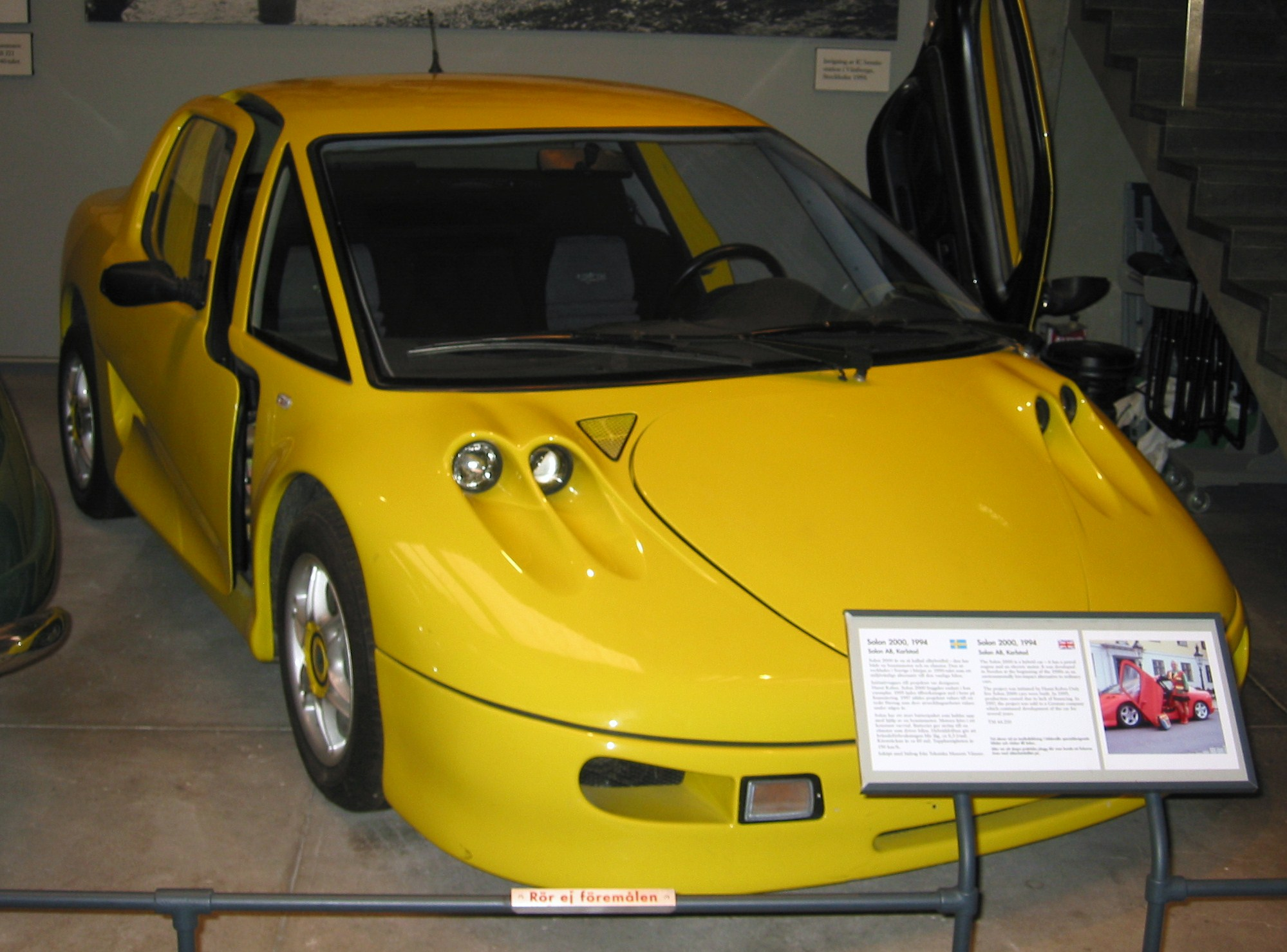 Solon 1994